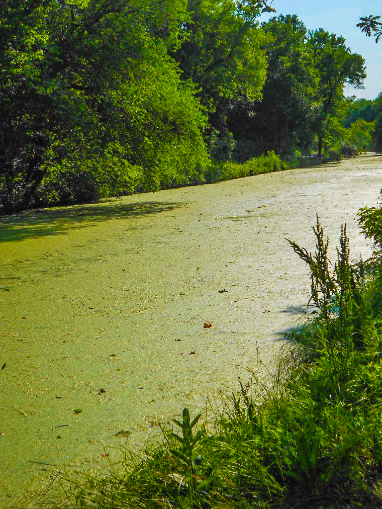 Gebhard Woods State Park Morris, Illinois May 27, 2012 (Site of Illinois and Michigan Canal)